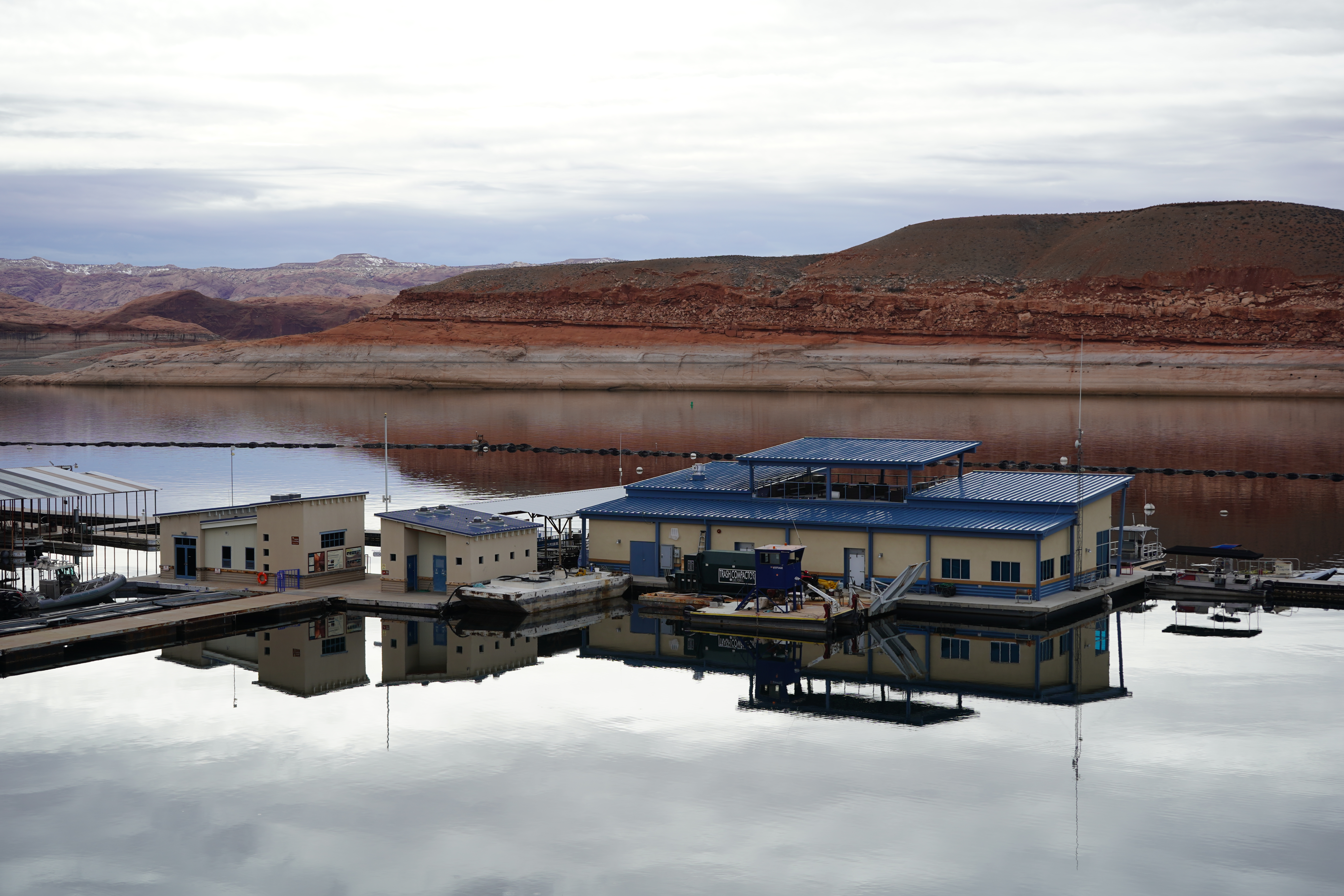 The photograph is of the Halls Crossing Marina. Photograph taken on 2019-02-02T21:41:55Z.